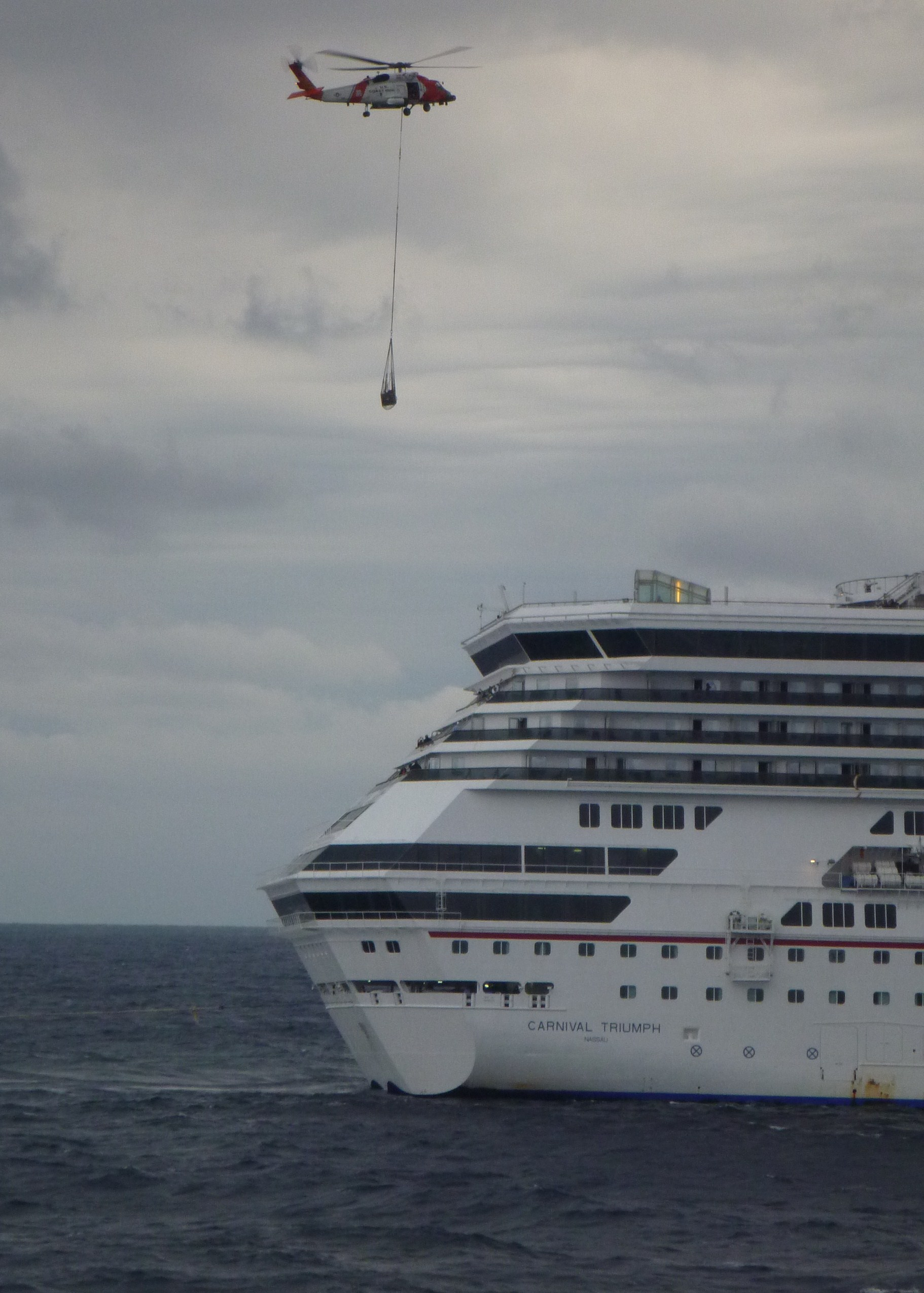 A Coast Guard Aviation Training Center Mobile MH-60 Jayhawk helicopter crew delivers approximately 3,000 pounds of equipment, which included a generator and electrical cables, from the offshore supply vessel Lana Rose to the Carnival Cruise Ship Triumph in the Gulf of Mexico, Feb. 13, 2013. The generator will be used to help provide additional power to the cruise ship. U.S. Coast Guard photo by Lt. Cmdr. Paul McConnell.